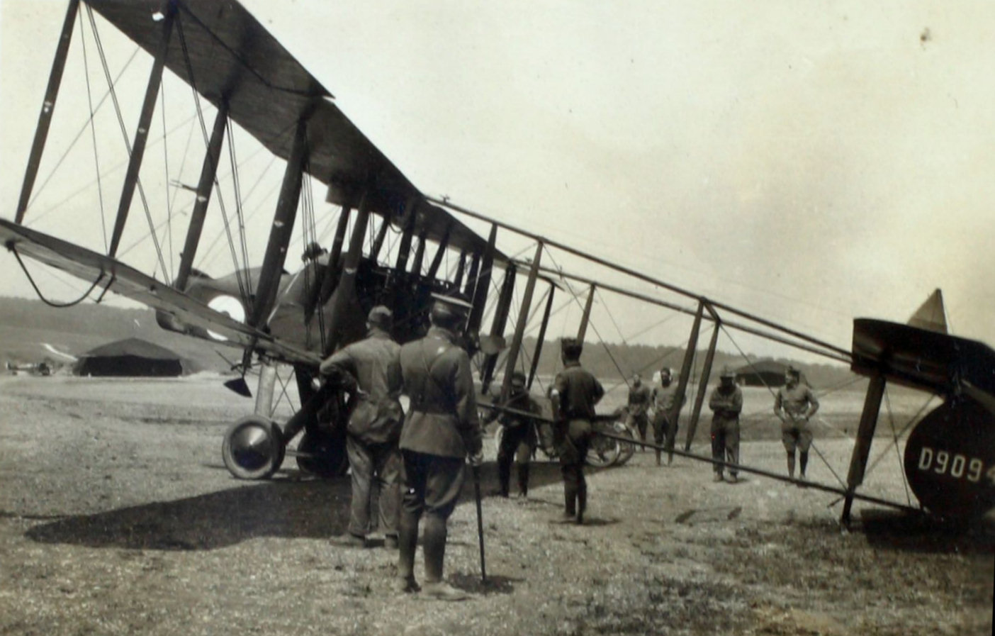 Royal Aircraft Factory FE-2 British First World War biplane